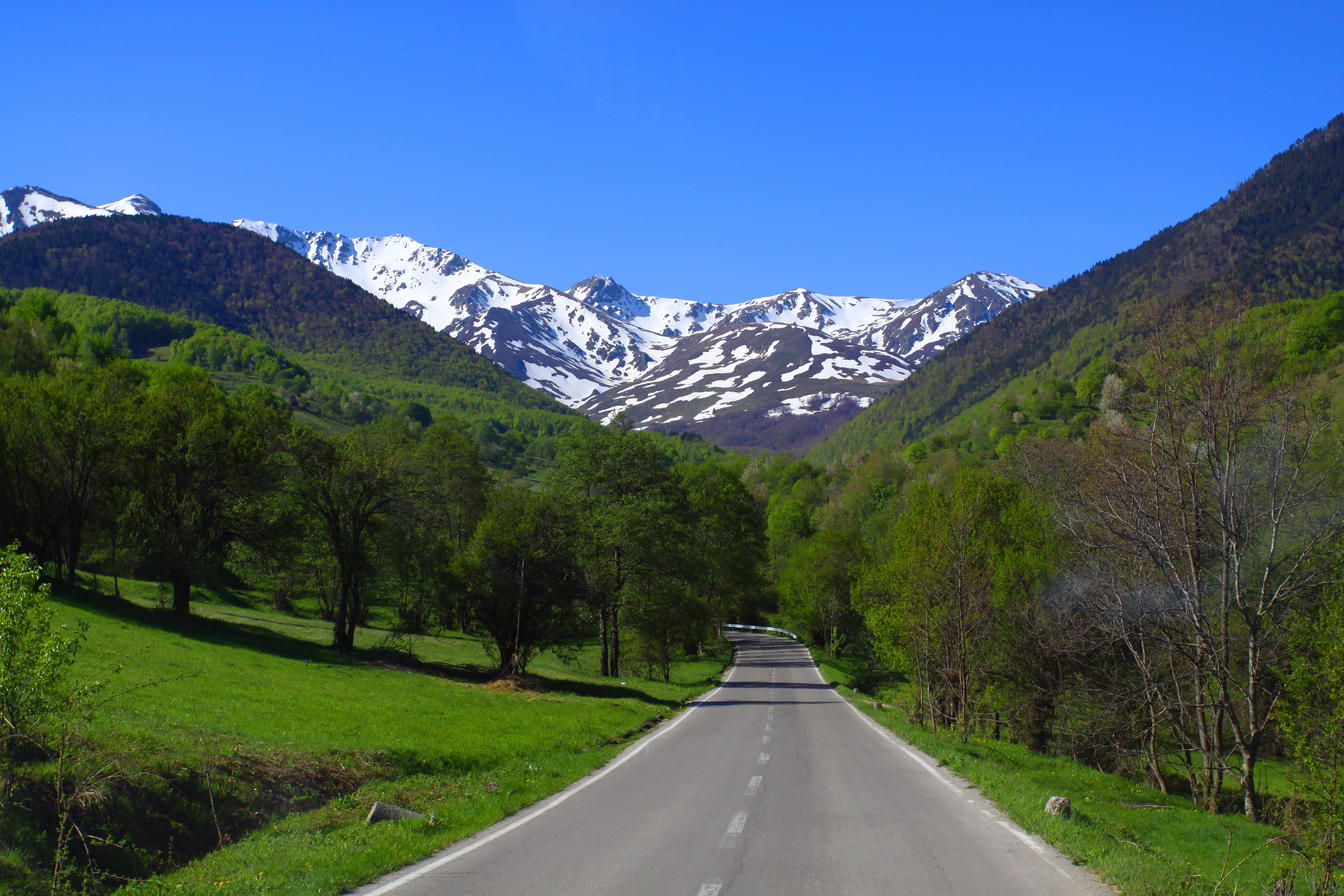 The road that leads to Prevalla. Photo made from the beautiful nature of Jazhince in Shterpce